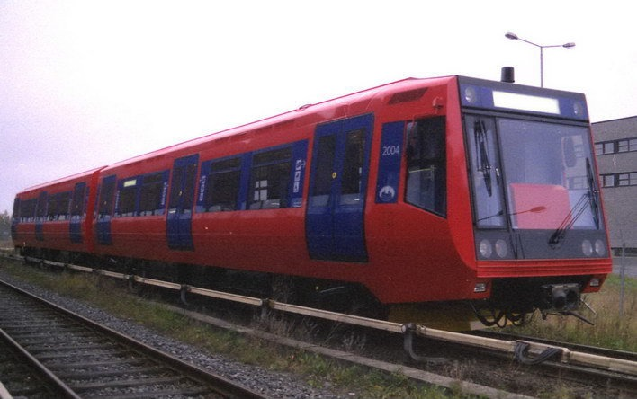 Oslo Metro T2004 and 2003 at Ryen; just delivered